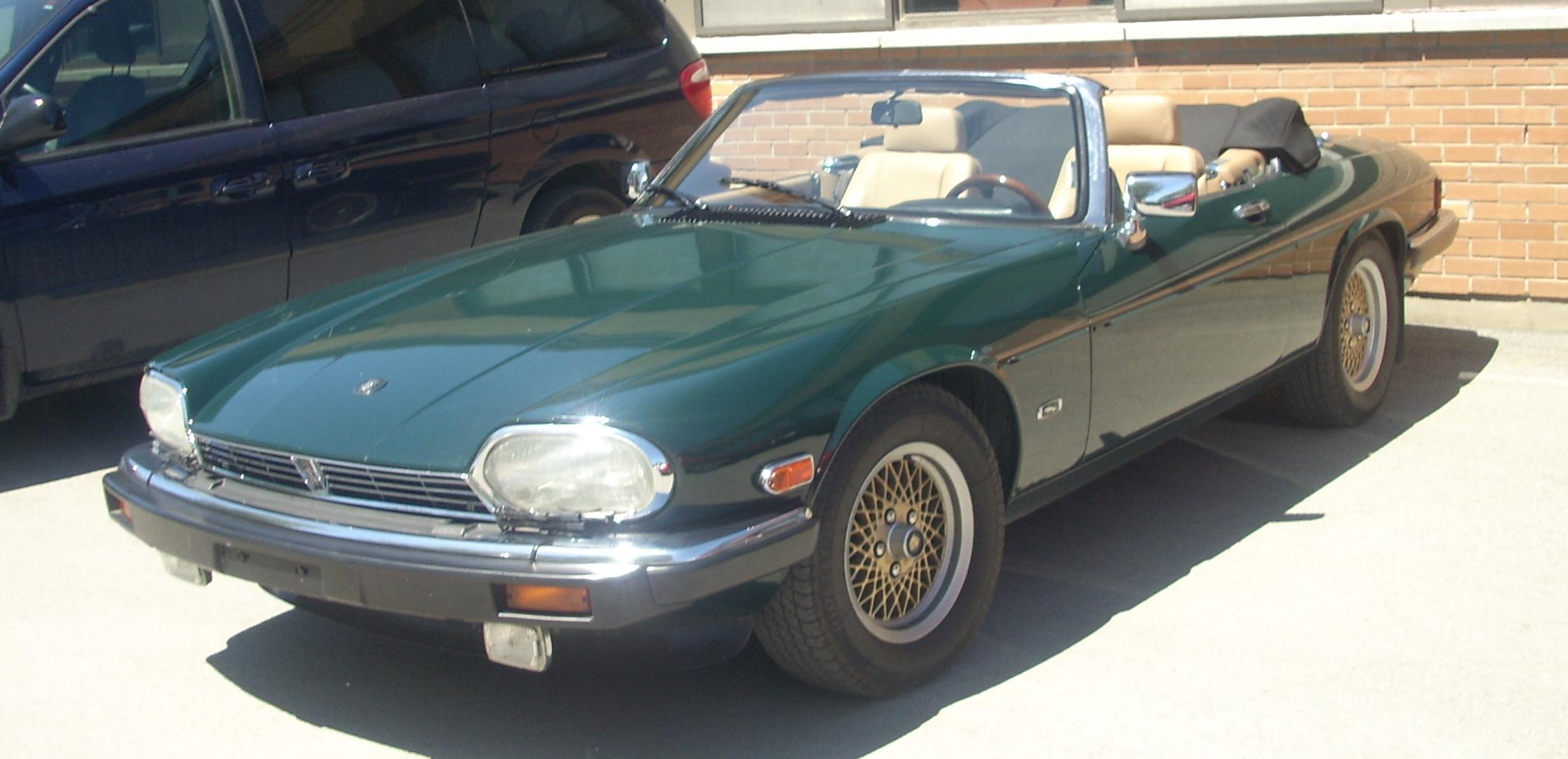 Jaguar XJS photographed at the 2008 Hudson British Auto Show.